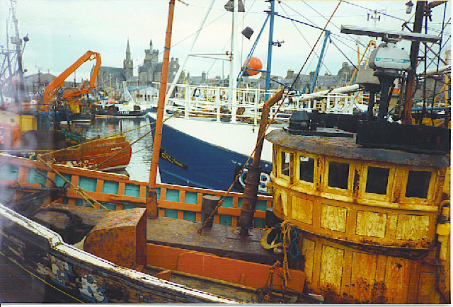 Fishing Boats, Fraserburgh. Fraserburgh is one of Britain's biggest white fish ports. However, the fleet has diminished greatly in recent years due to imposed EU rules.